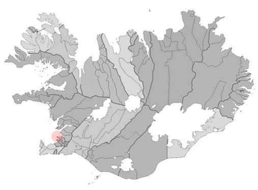 Based on Municipalities of Iceland.png.